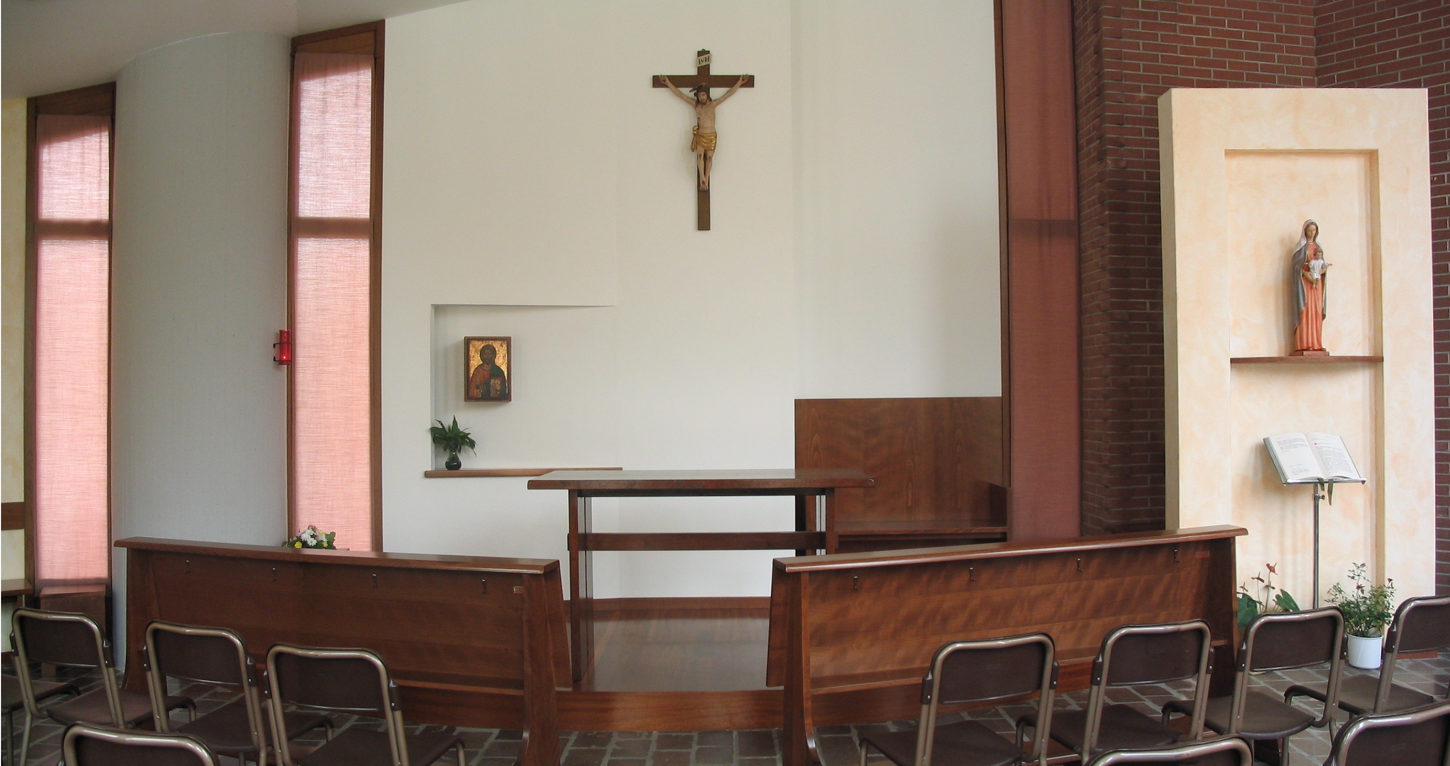 Winter Chapel before the Virgin Mary sculpture and icon on tabernacle door were stolen.